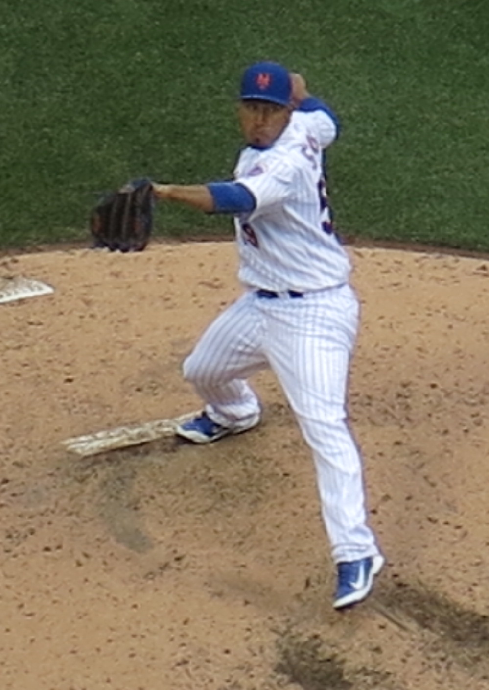 Fernando Salas on May 7, 2017.